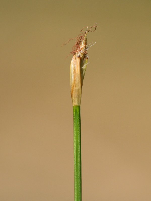 Rasen-Haarsimse (Trichophorum cespitosum subsp. germanicum), Detail